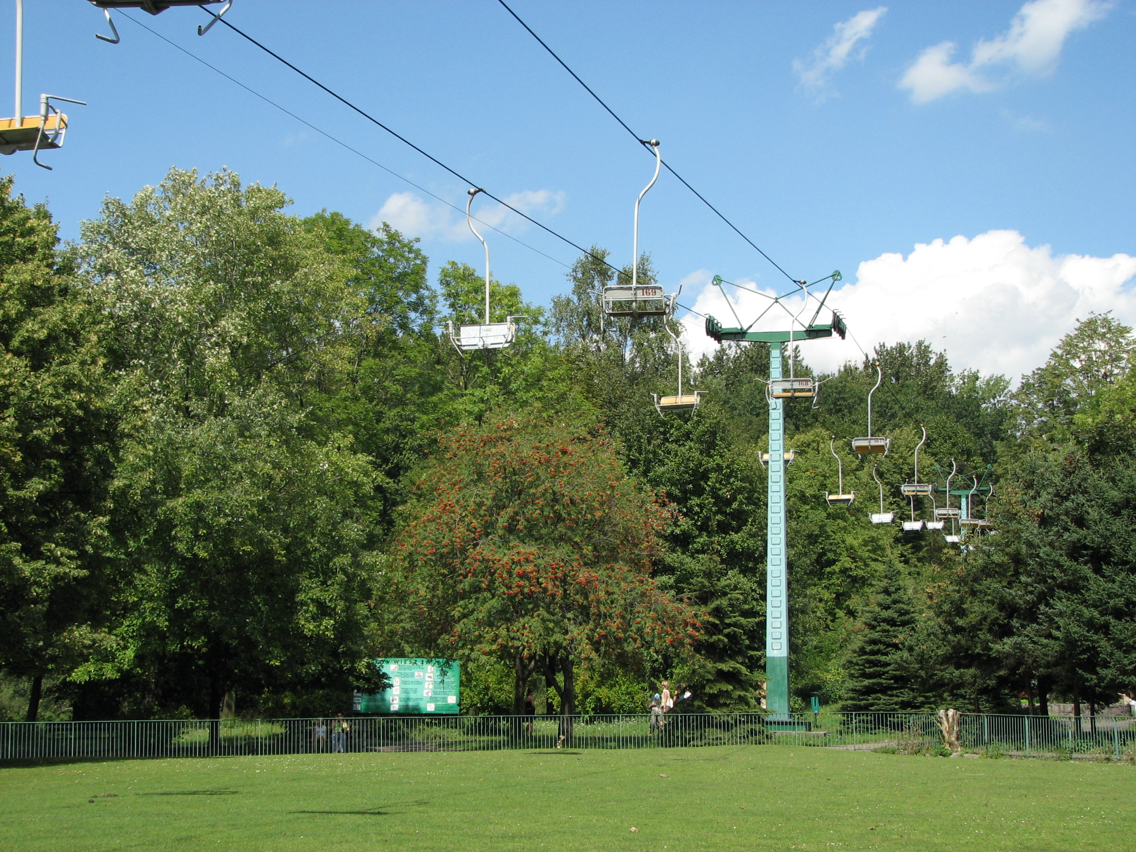 Silesian Central Park (Aerial lift pylon), Chorzów, Poland